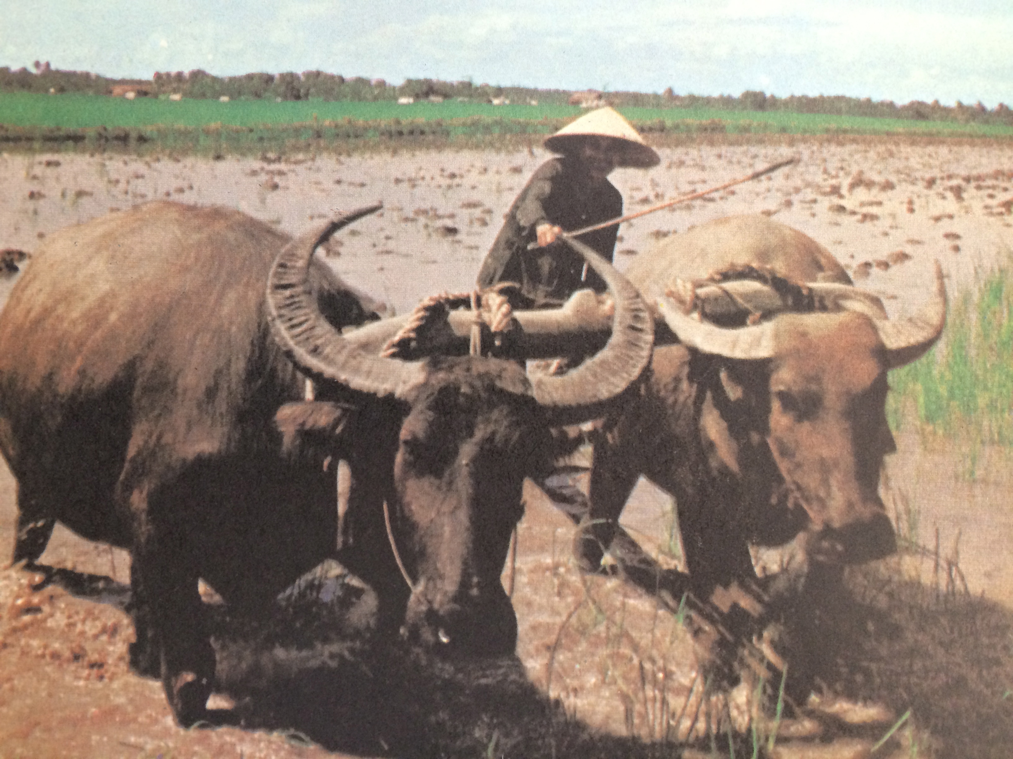 Plowing with water buffaloes in South VietnamTiếng Việt: Trâu kéo cày